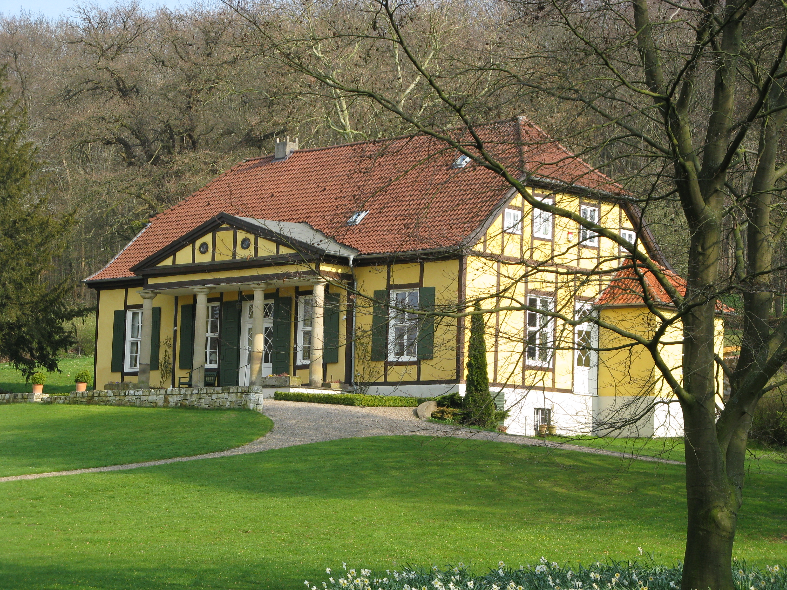 House at park of Obernfelde Manor in Lübbecke, District of Minden-Lübbecke, North Rhine-Westphalia, Germany.